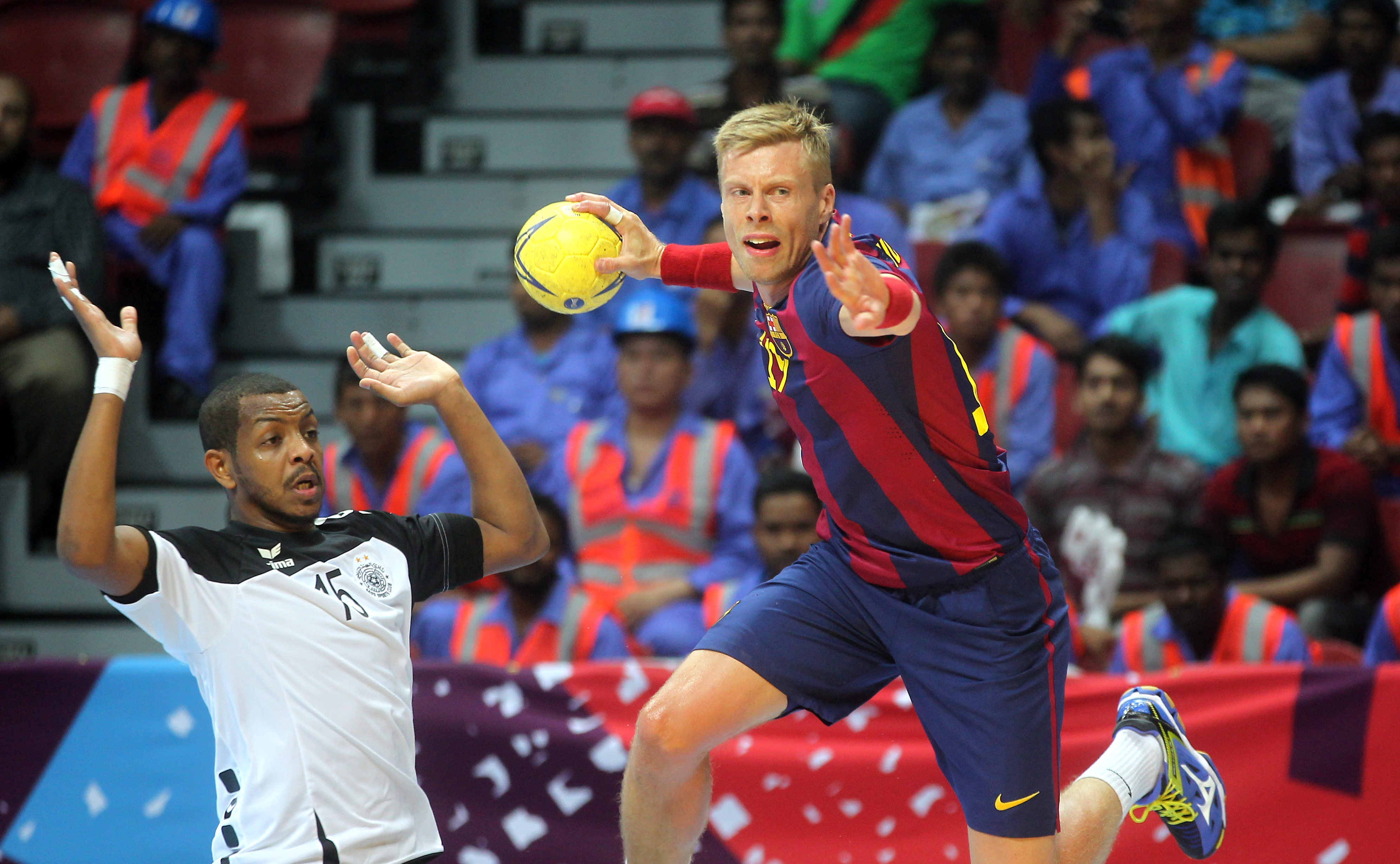 Barcelona's Guðjón Valur Sigurðsson prepares to score against Al Sadd in the IHF Super Globe 2014.